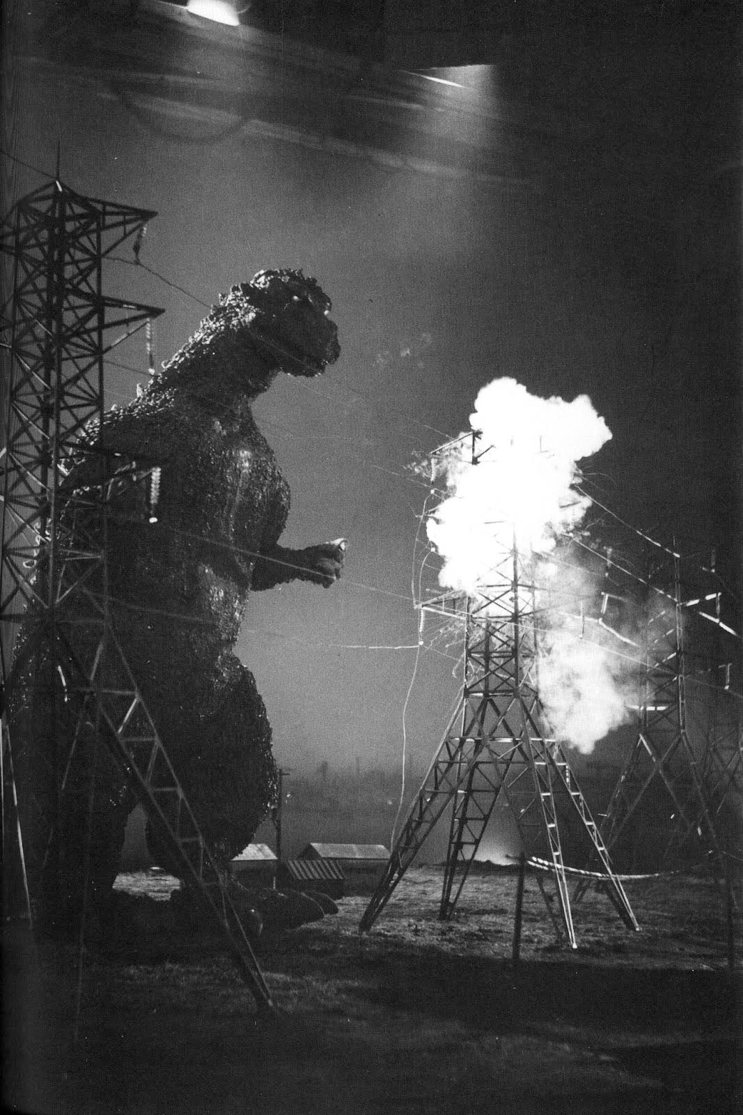 Behind the scenes on the set of Godzilla.